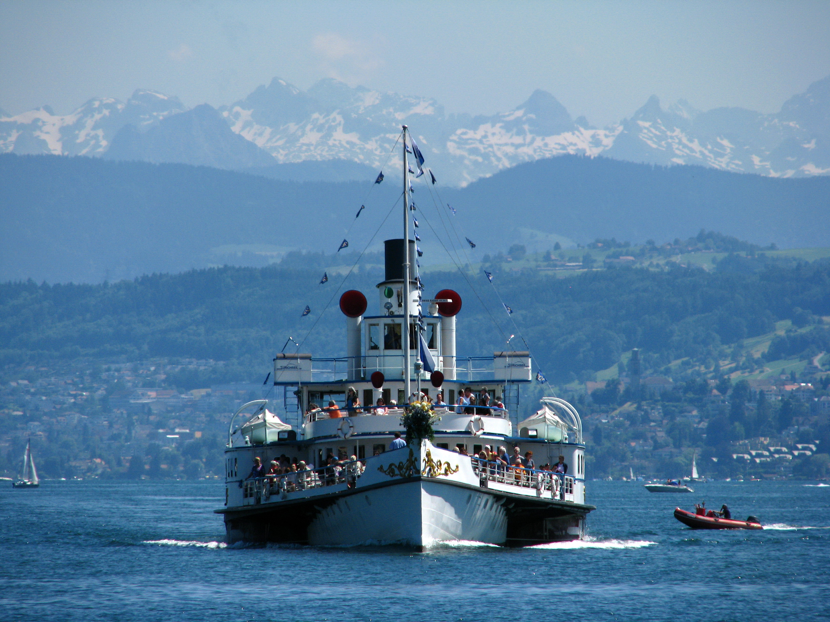 Zürichsee-Schiffahrtsgesellschaft (ZSG) paddle steamer Stadt Zürich on Zürichsee, Zimmerberg and Alps in the background.